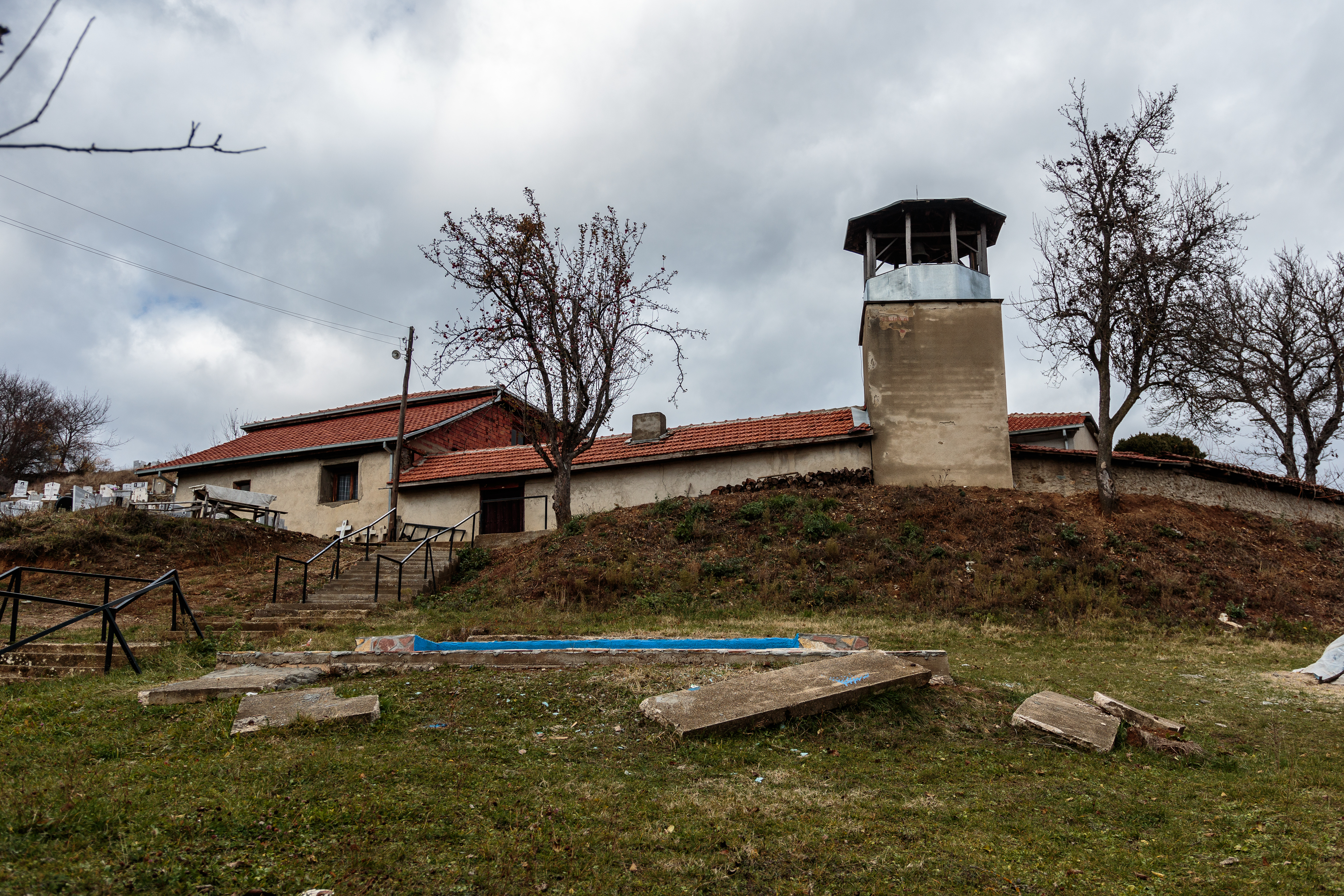 View of St. Petka Church in the village Rusinovo